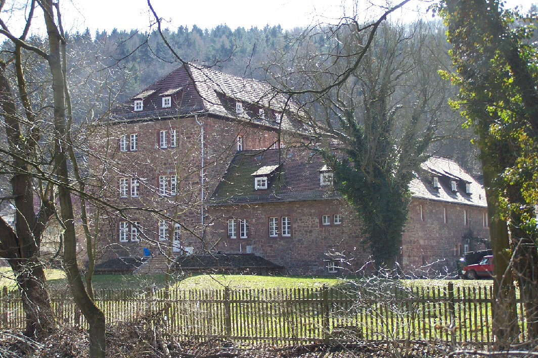 Feldeck Castle.